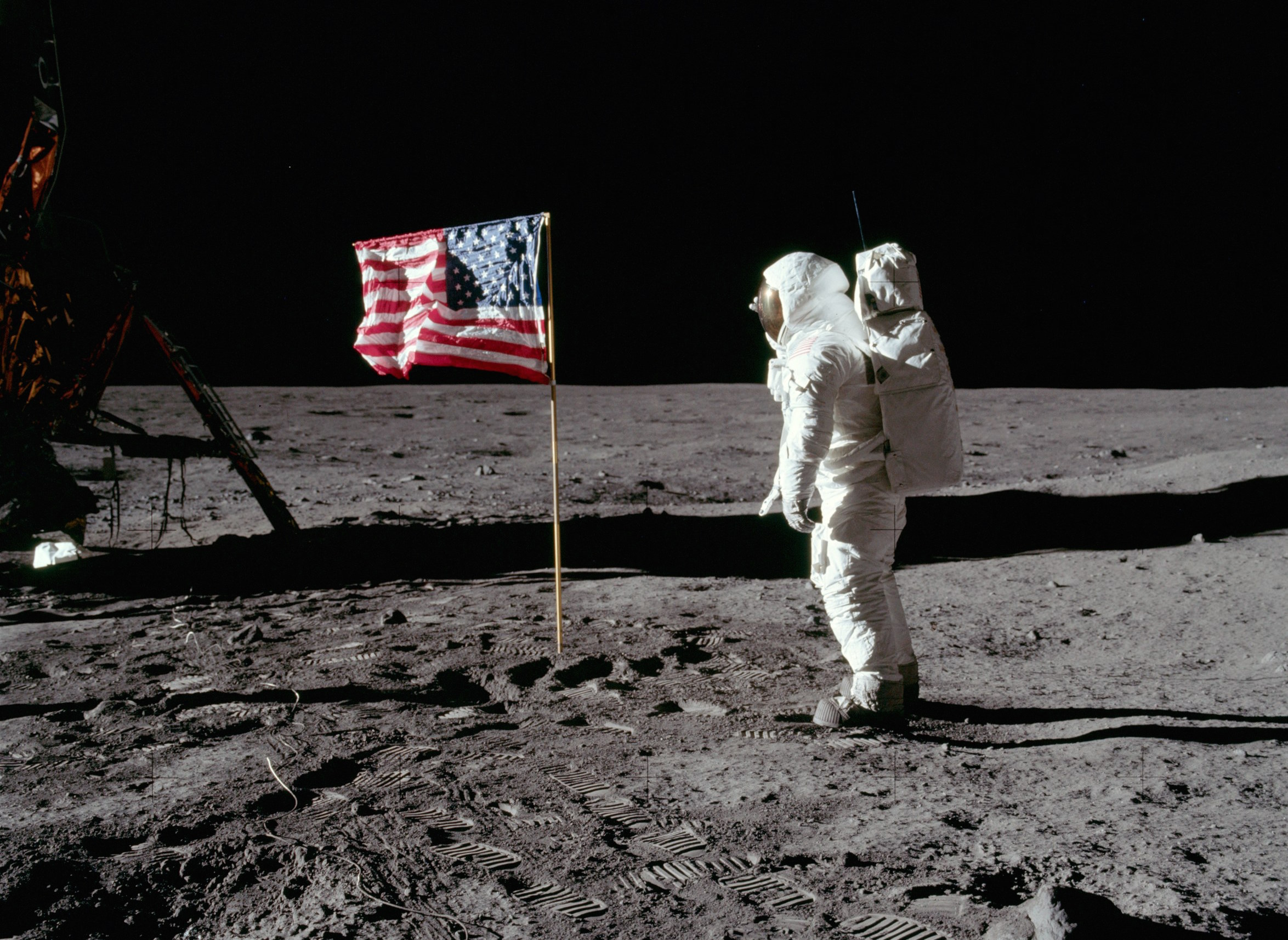 Cropped version of File:Buzz salutes the U.S. Flag.jpg